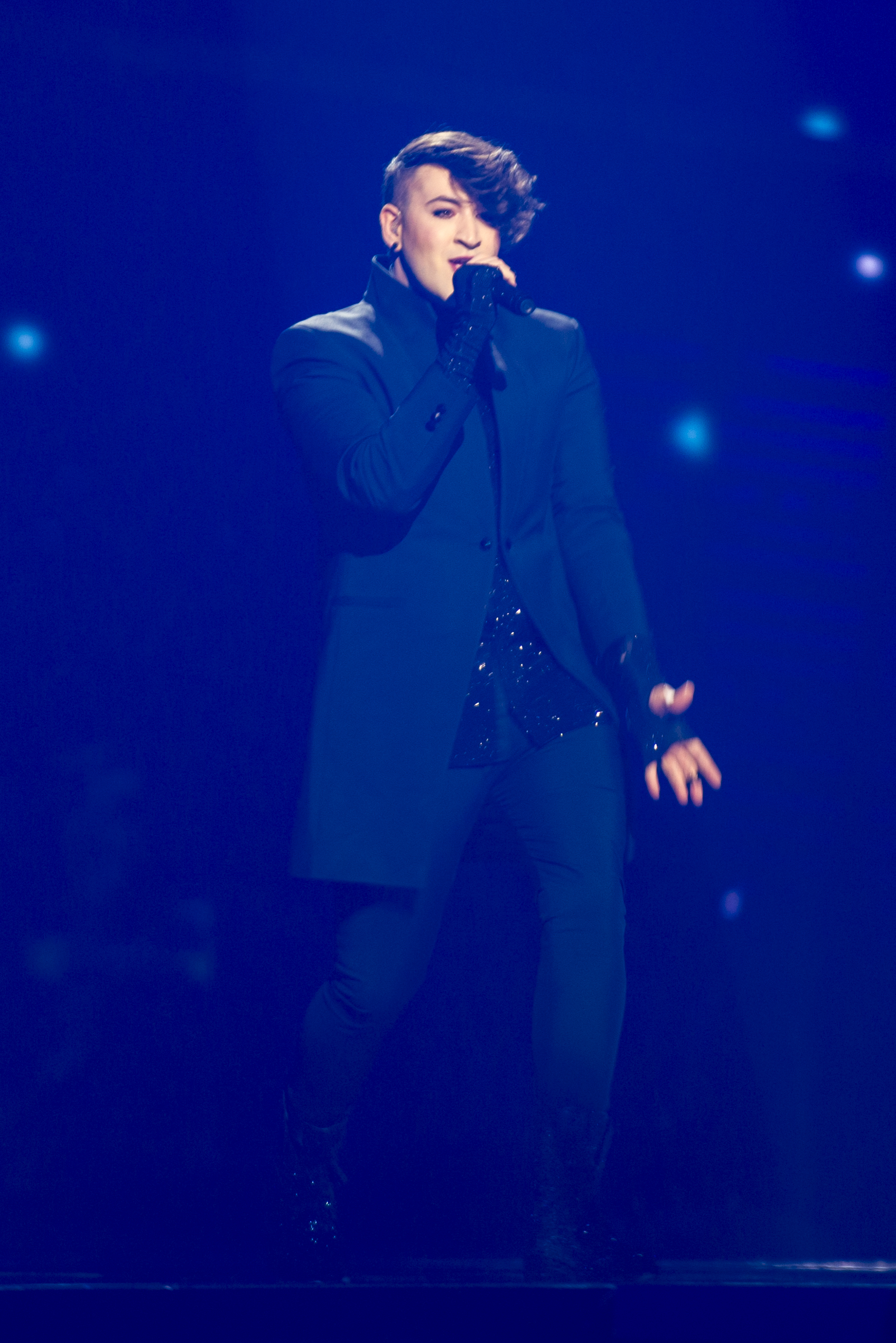 Hovi Star representing Israel with the song "Made of Stars" during a rehearsal before the second semi final of the Eurovision Song Contest 2016 in Stockholm. (Help translate this text)